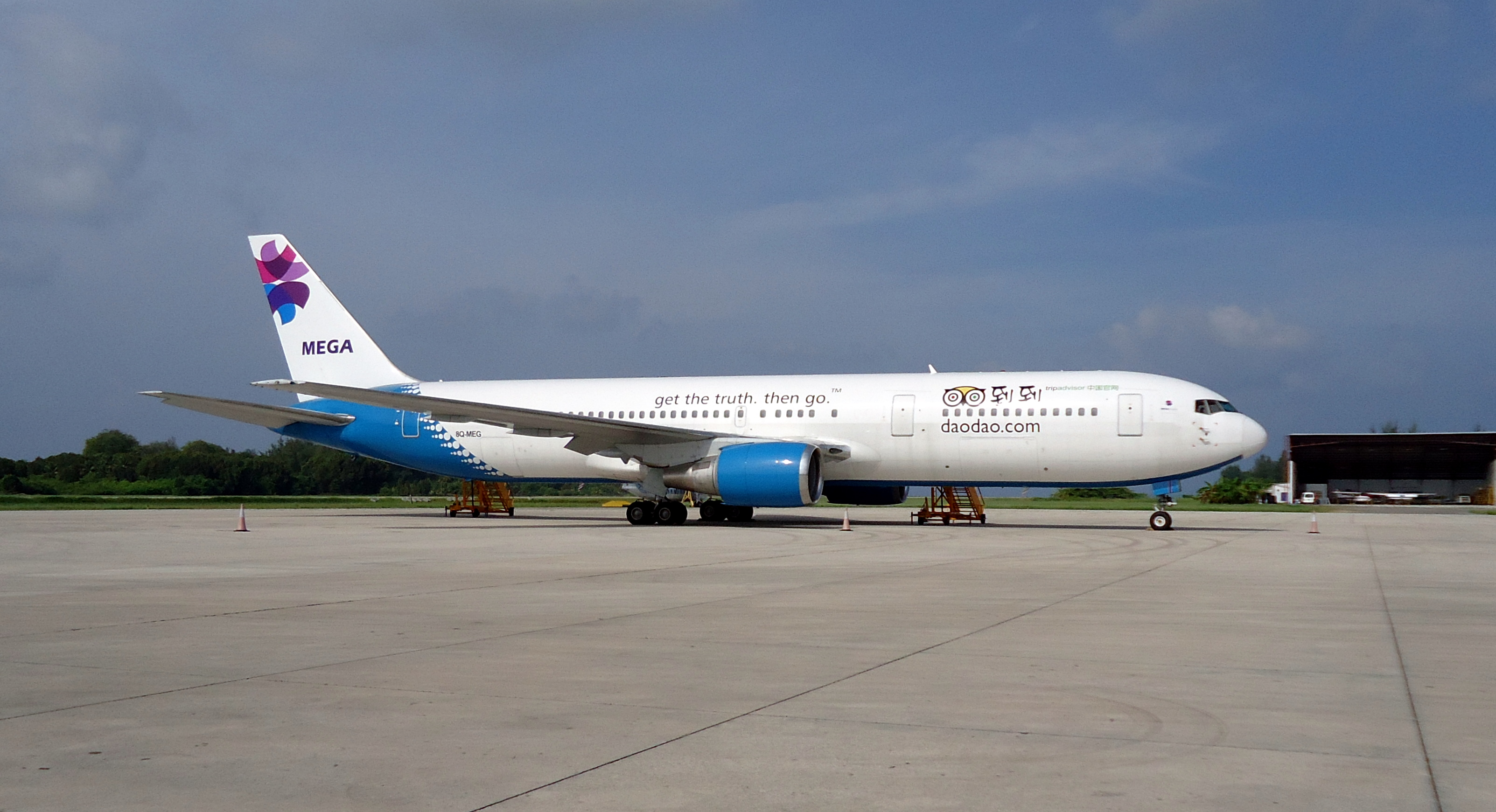 8Q-MEG at Gan International Airport